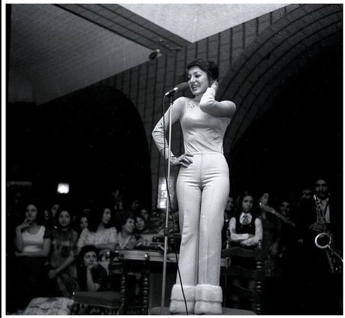 Googoosh singing, 1969